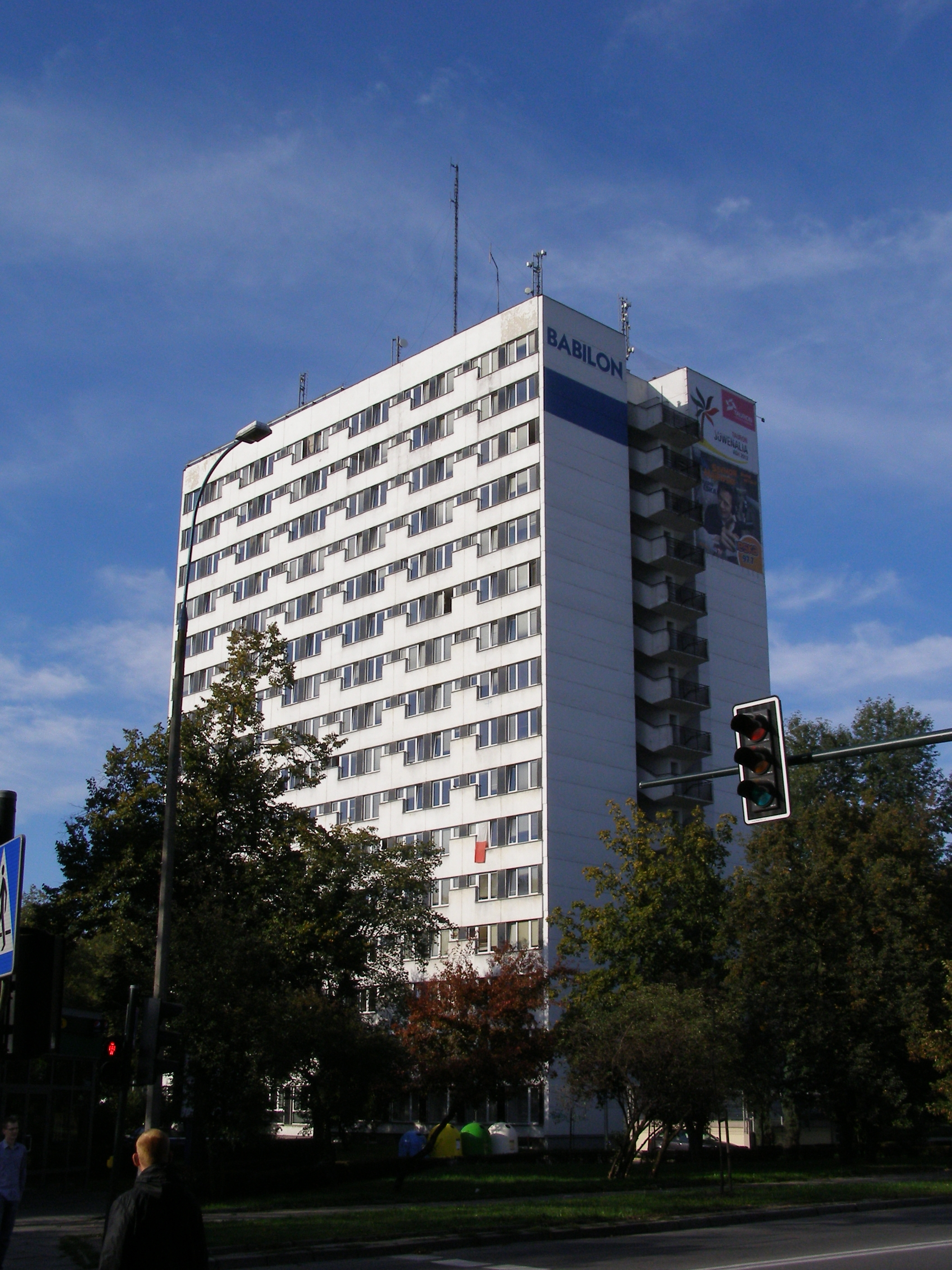 Kraków - AGH Student Campus - Babilon student house